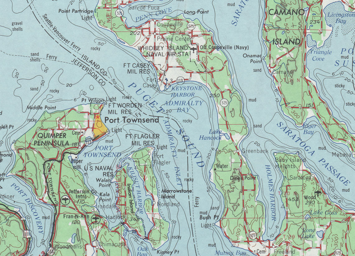 A map showing the route of Washington State Route 113 in 1966.